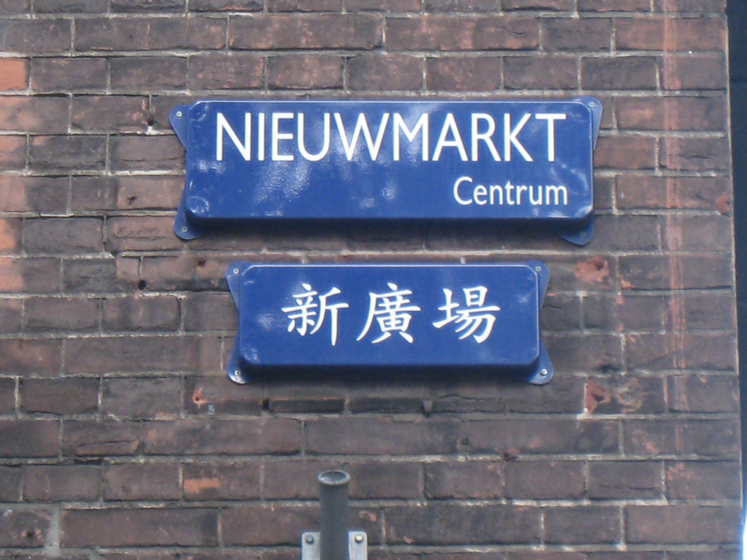 Nieuwmarkt (Amsterdam), Amsterdam (North Holland)